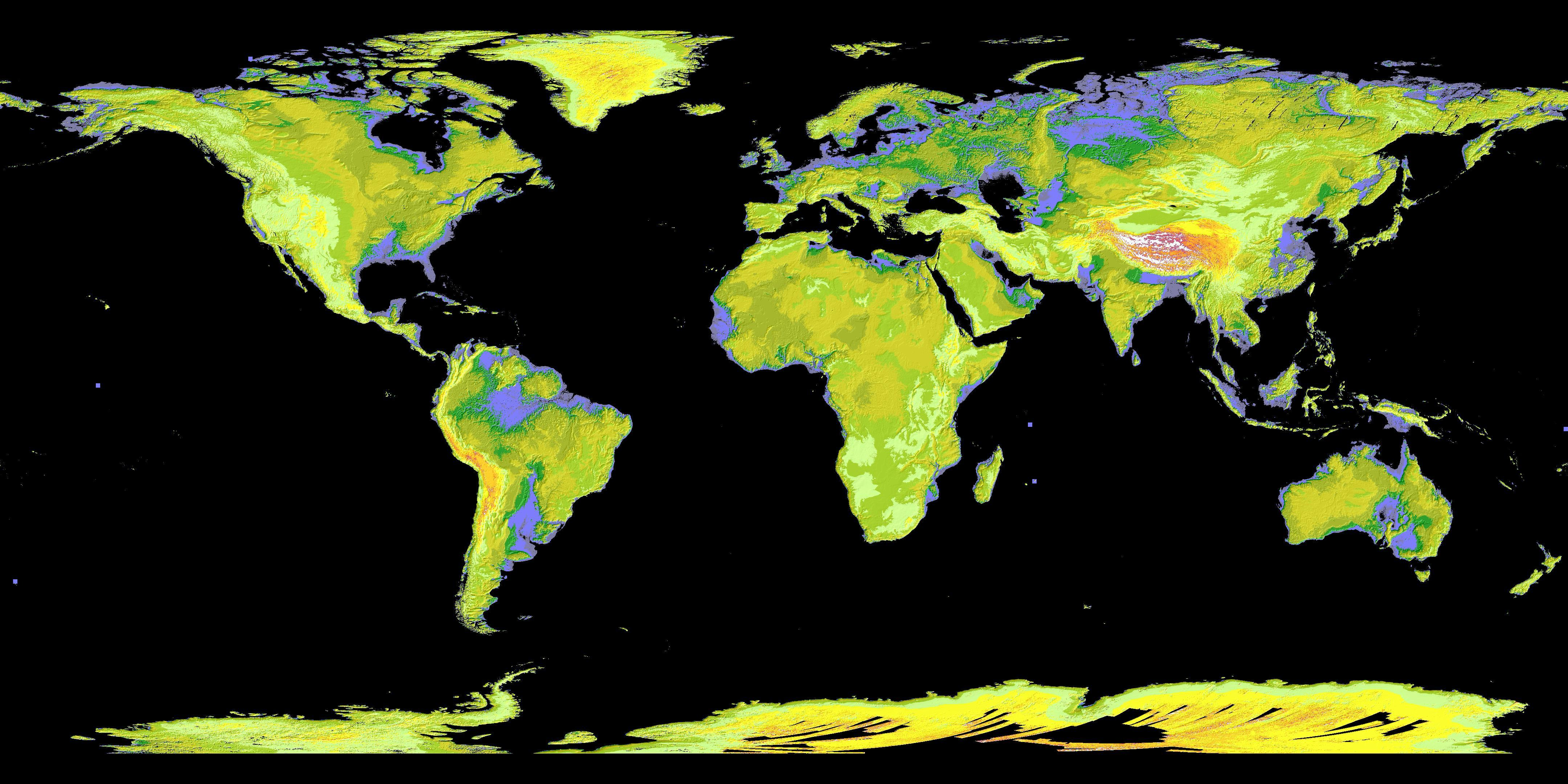 Global Digital Elevation Model This Global Digital Elevation Model, or GDEM, is a product of the Advanced Spaceborne Thermal Emission and Reflection Radiometer (ASTER), a joint program of NASA and Japan's Ministry of Economy, Trade and Industry. The image was released on 29 June 2009, and was created by processing and stereo-correlating the 1.3 million-scene ASTER archive of optical images, covering Earth's land surface between 83 degrees North and 83 degrees South latitudes. The GDEM is produced with 29 m postings, and is formatted as 23,000 one-by-one-degree tiles. In this coloured version, low elevations are purple, medium elevations are greens and yellows, and high elevations are orange, red and white. With its 14 spectral bands from the visible to the thermal infrared wavelength region and its high spatial resolution of 15 to 100 m, ASTER images Earth to map and monitor the changing surface of our planet. ASTER is one of five Earth-observing instruments launched 18 Dec. 1999, on NASA's Terra satellite. The broad spectral coverage and high spectral resolution of ASTER provides scientists in numerous disciplines with critical information for surface mapping and monitoring of dynamic conditions and temporal change. Image Credit: NASA/GSFC/METI/ERSDAC/JAROS, and U.S./Japan ASTER Science Team